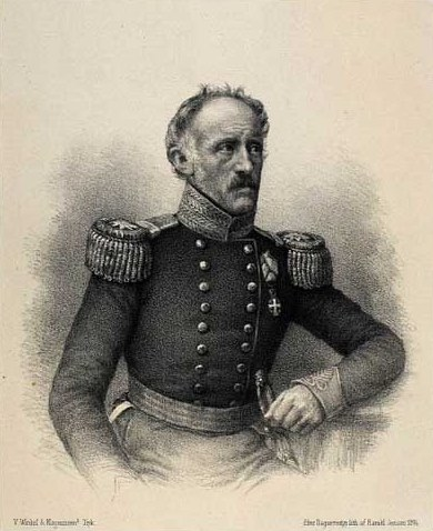 Christian Ludvig Castenschiold (1782-1865), Danish major general and estate owner